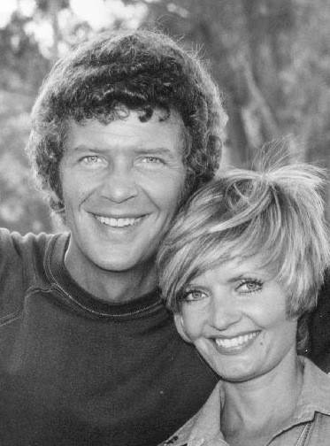 Publicity photo of American actors, Robert Reed and Florence Henderson promoting the premiere of the fifth and final season of the ABC comedy series The Brady Bunch.